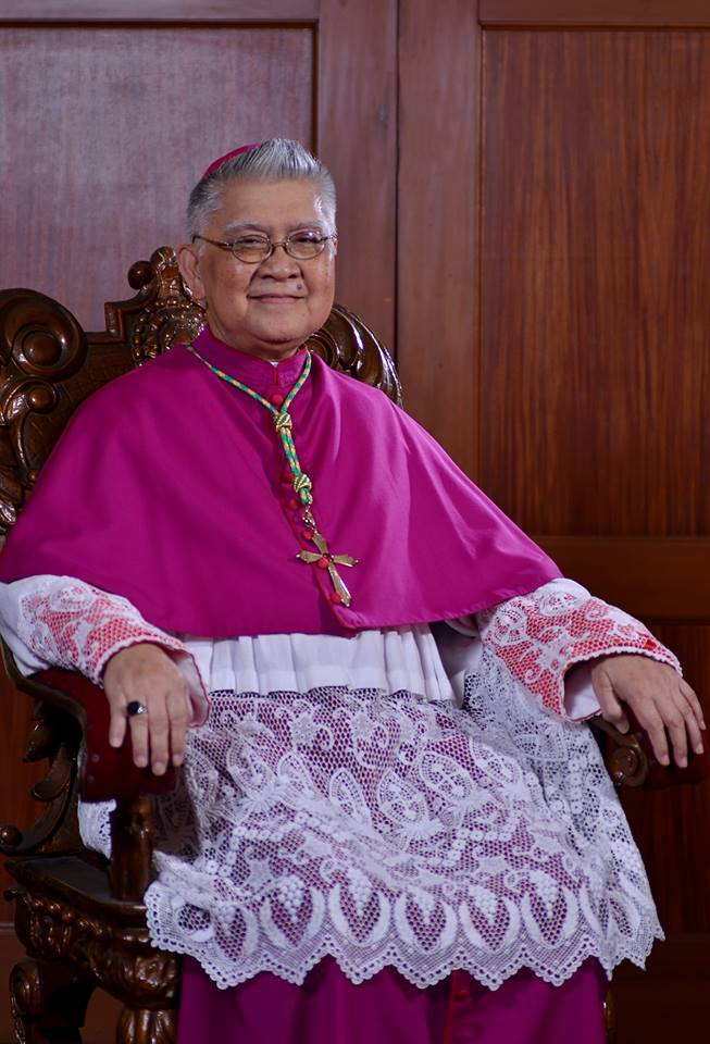 Portrait of His Excellency Archbishop Angel Lagdameo of the Metropolitan See of Jaro.